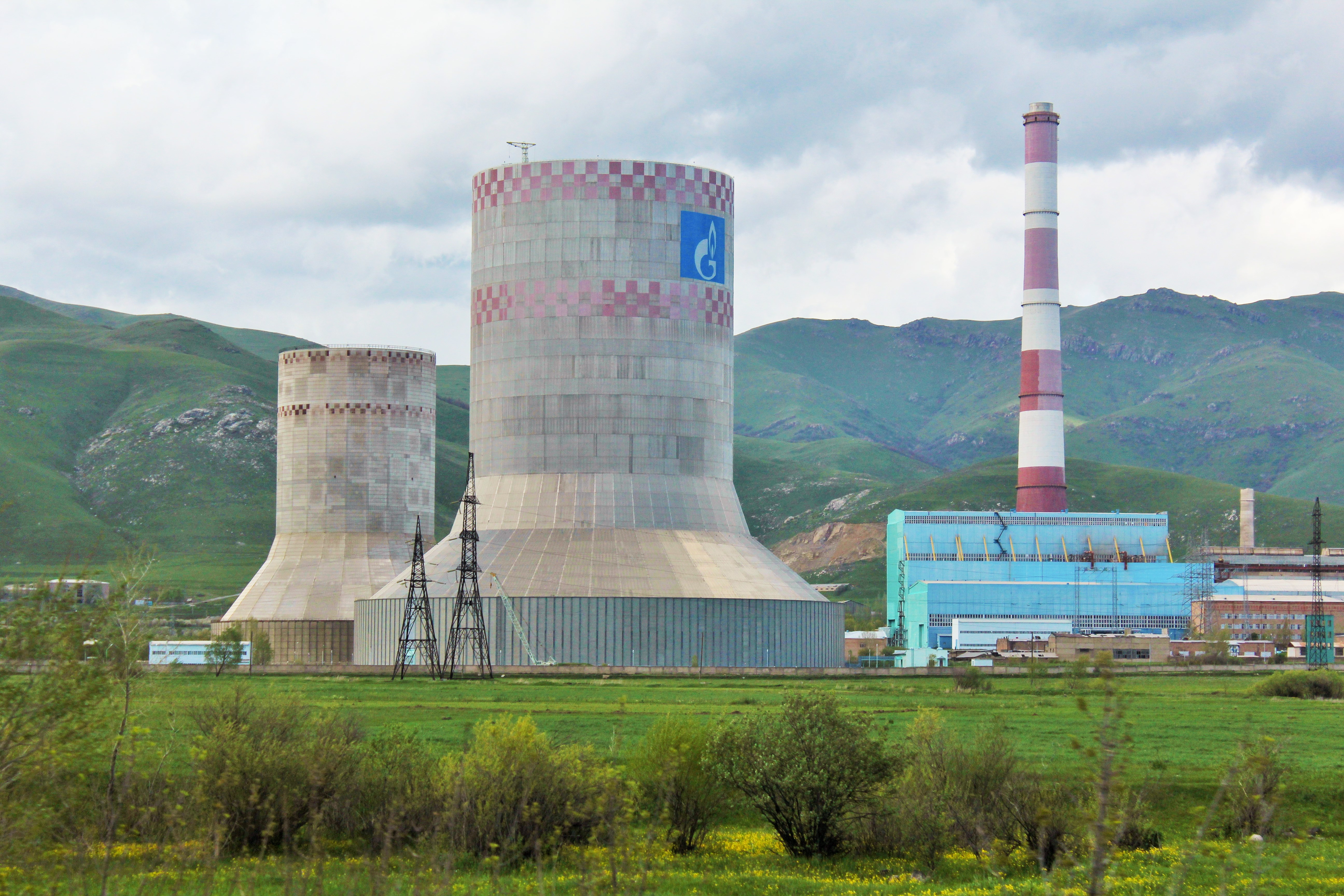 Hrazdan Thermal Power Plant Armenia